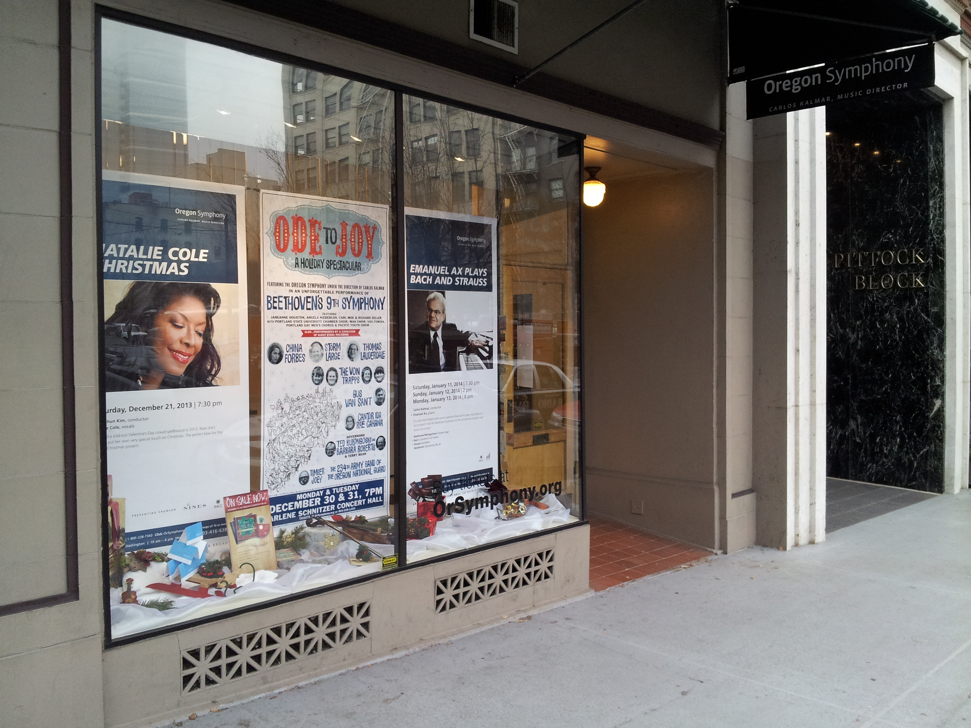 Entrance to the Oregon Symphony ticket office, decorated for the holiday season and located in the Pittock Block in downtown Portland, Oregon, in December 2013